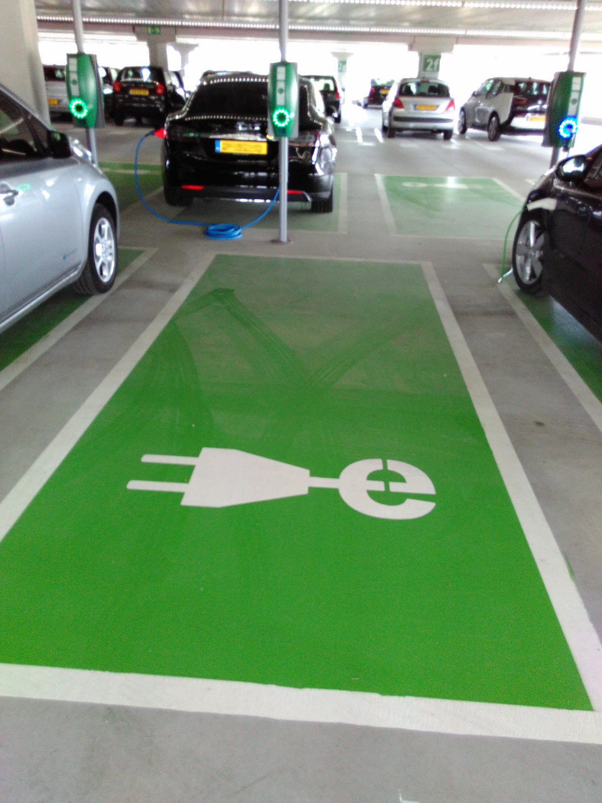 Marking on the ground for charging electric cars in a parking garage in the Netherlands